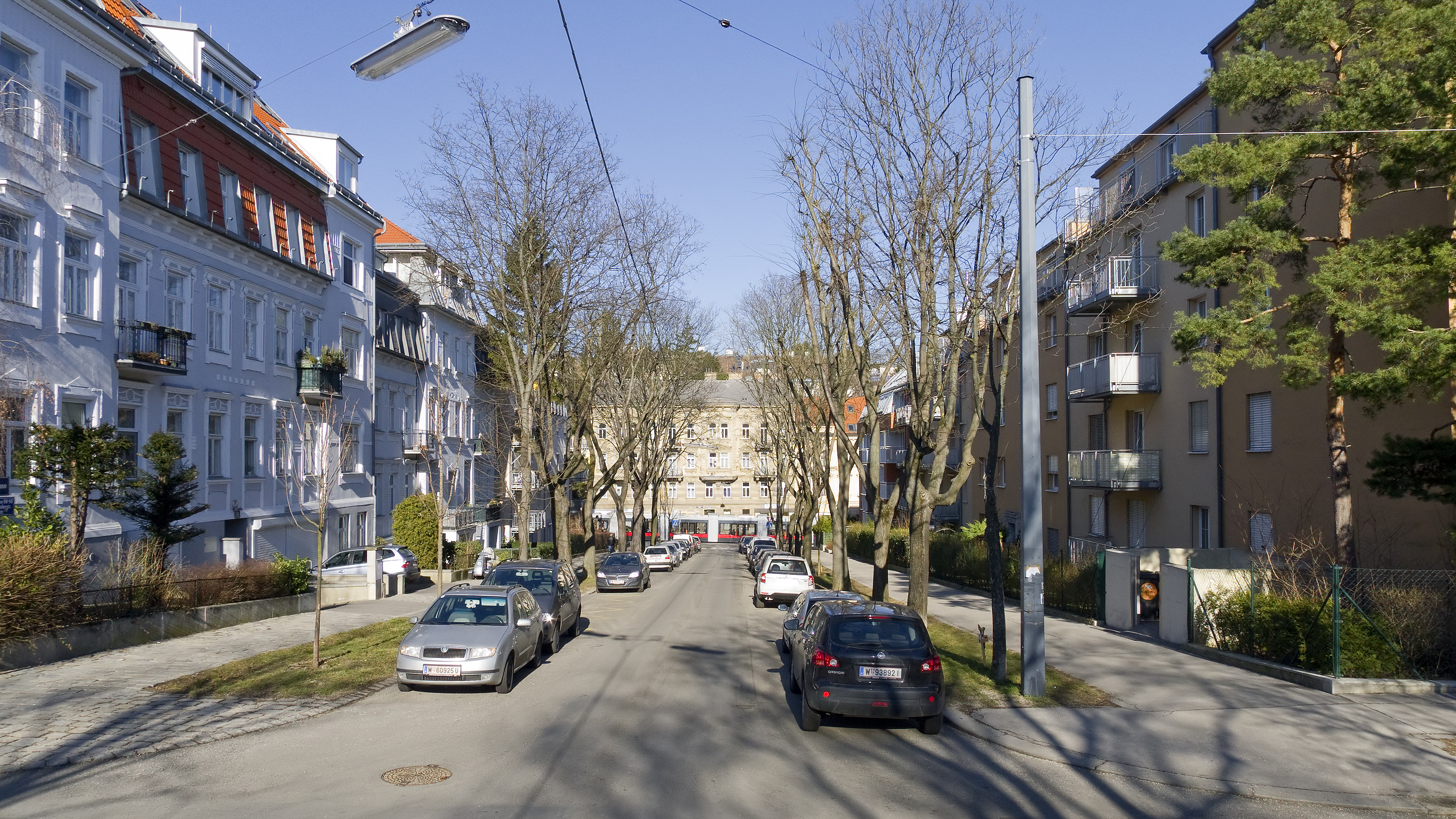 Erndtgasse in Vienna Währing